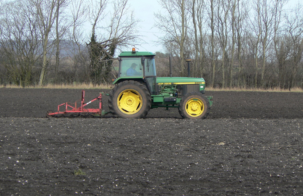 John Deere 3350 pulling a spring tine harrow/cultivator. – Cultivation work near to Bunny, Nottinghamshire, Great Britain. The heavy ploughing has been allowed to weather and the soil is being further broken and levelled using a spring tine cultivator. It may then be subject to further harrowing before being seeded.